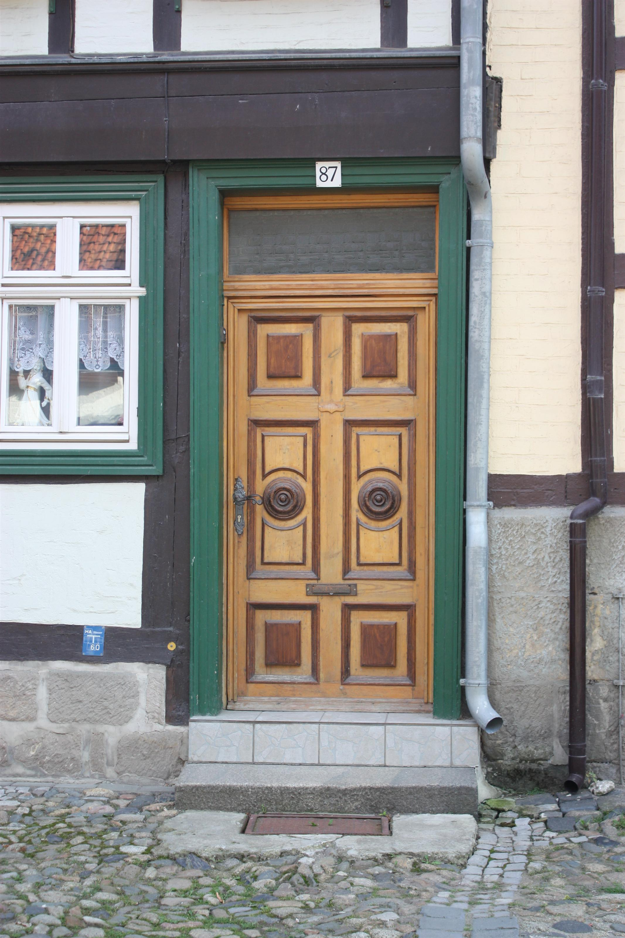 This is a photograph of an architectural monument.It is on the list of cultural monuments of Quedlinburg Augustinern 87 in Quedlinburg